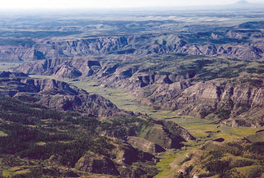 Photograph illustrating the topography of the Charles M. Russell National Wildlife Refuge in eastern Montana in the United States. The Missouri River flows through the center of the refuge, which sits atop a glaciated plain of alluvial deposits, clay, and shale. Habitat includes prairie, forested ravines, riverbottom areas, and badlands.